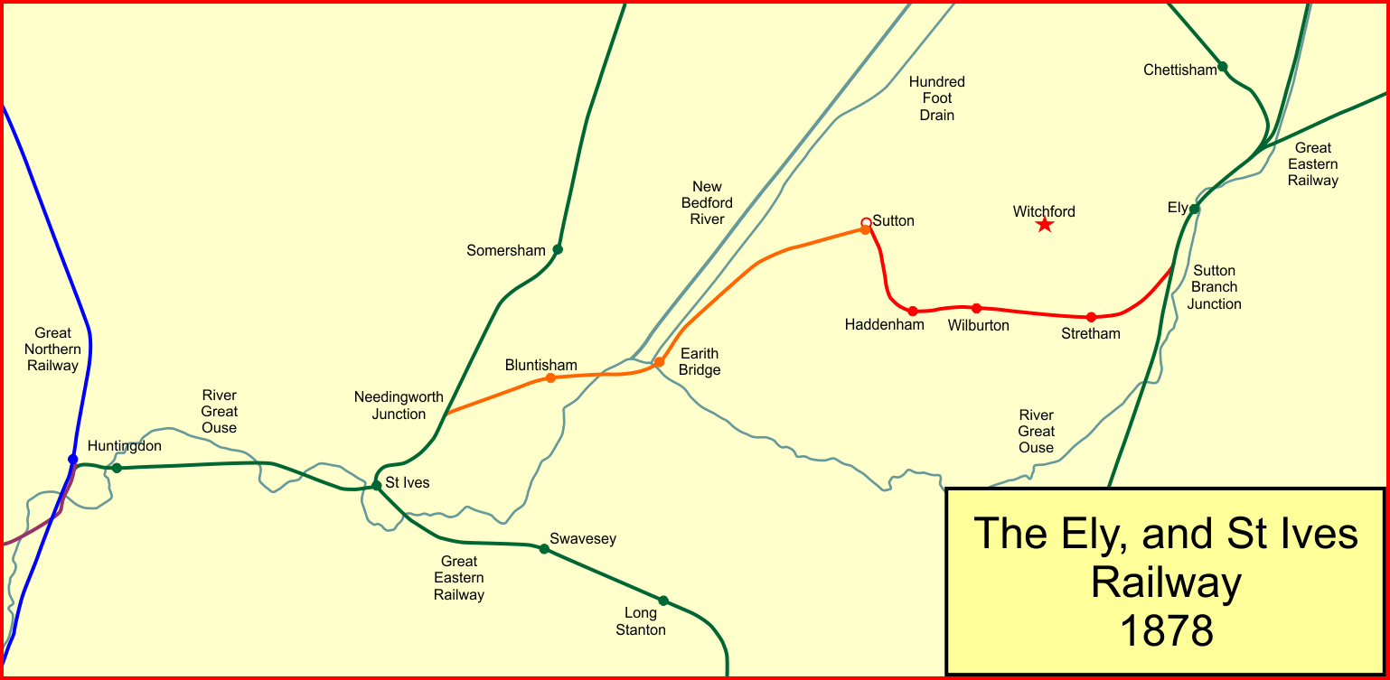 System map of the Ely and St Ives Railway in 1878